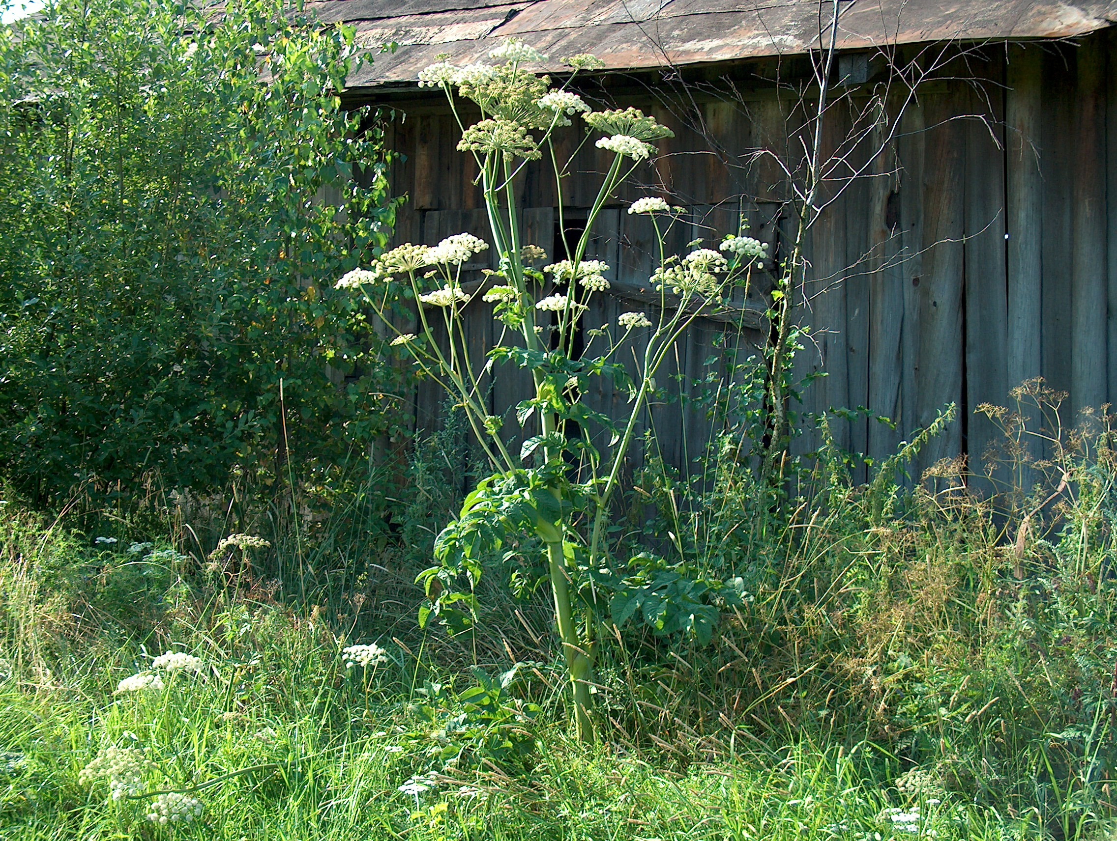 Wild Angelica or Woodland Angelica (Angelica sylvestris) in Kerava, Finland